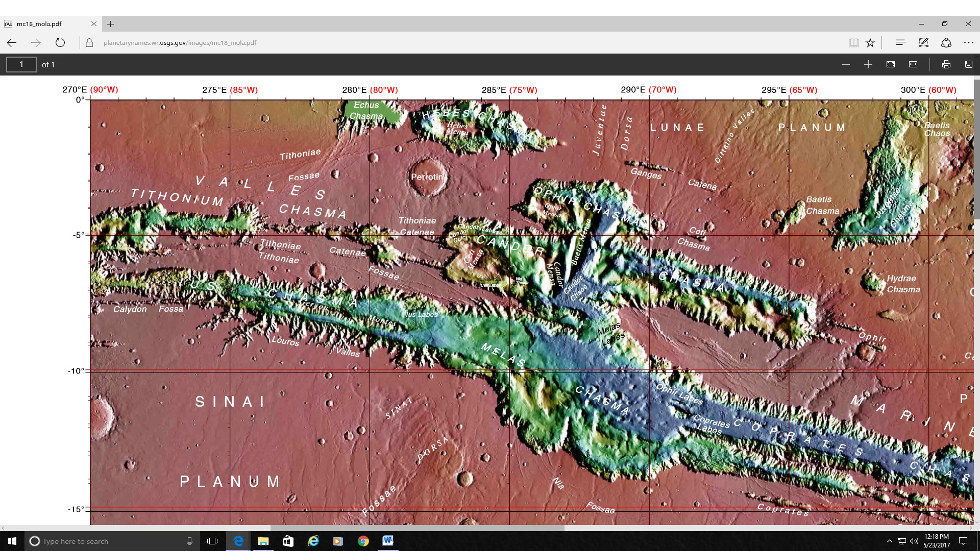 MOLA map showing location of Loures Valles and surrounding features. Features are labeled.